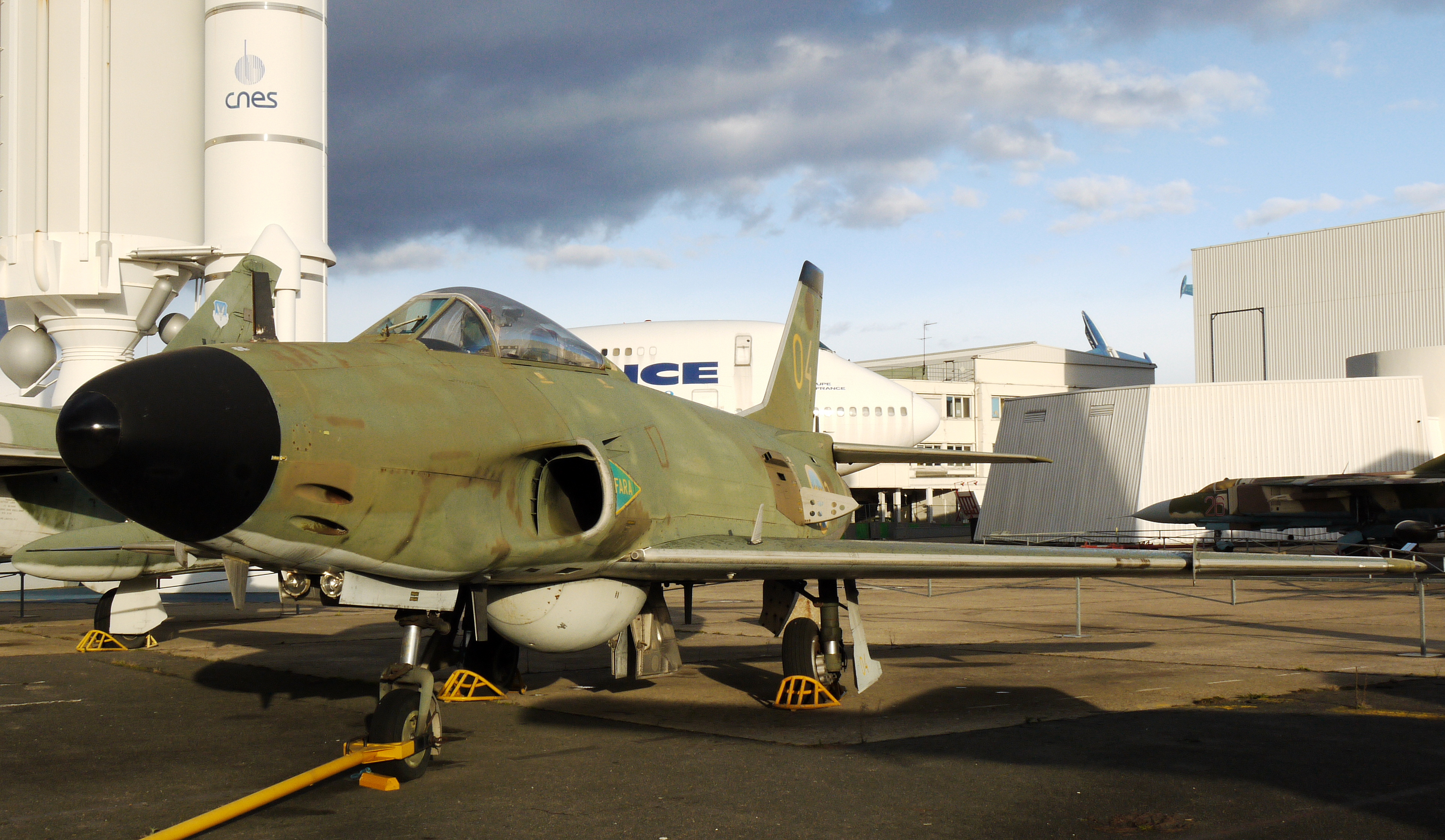 Swedish two-seater attack aircraft SAAB J32 Lansen (1952), Museum of Air and Space Paris, Le Bourget (France)